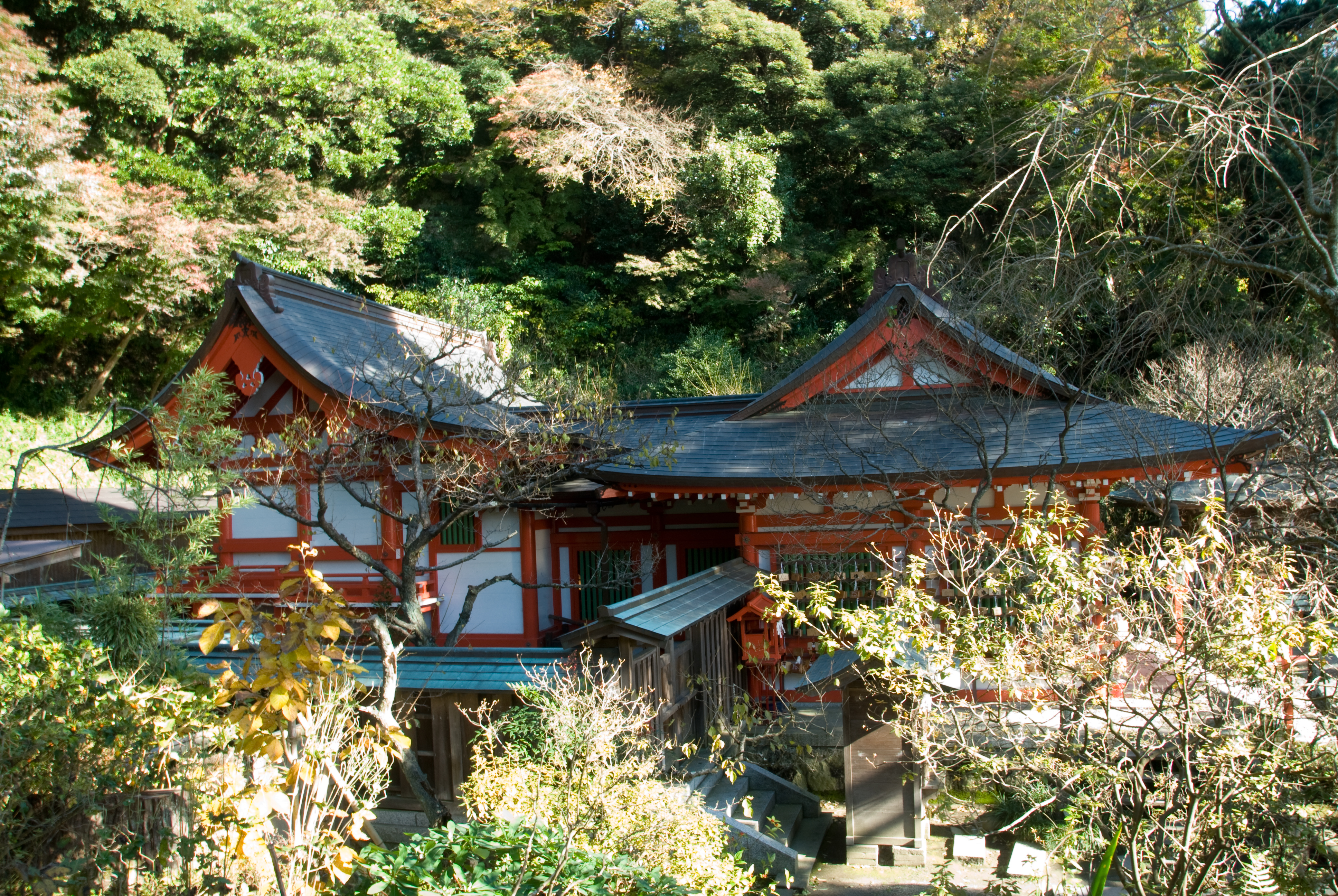 The rear of Egara Tenjinsha shrine in Kamakura